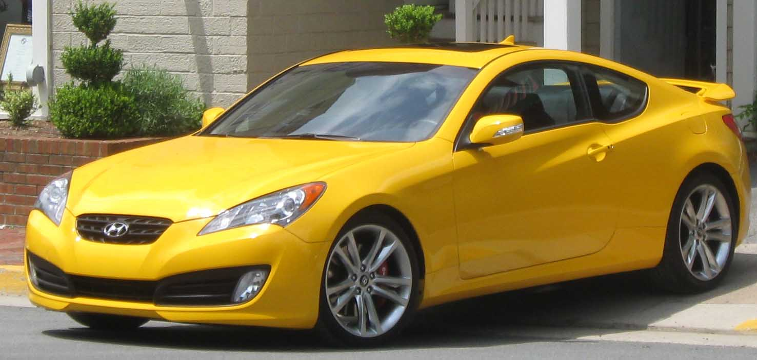 2010 Hyundai Genesis Coupe photographed in Middleburg, Virginia, USA.